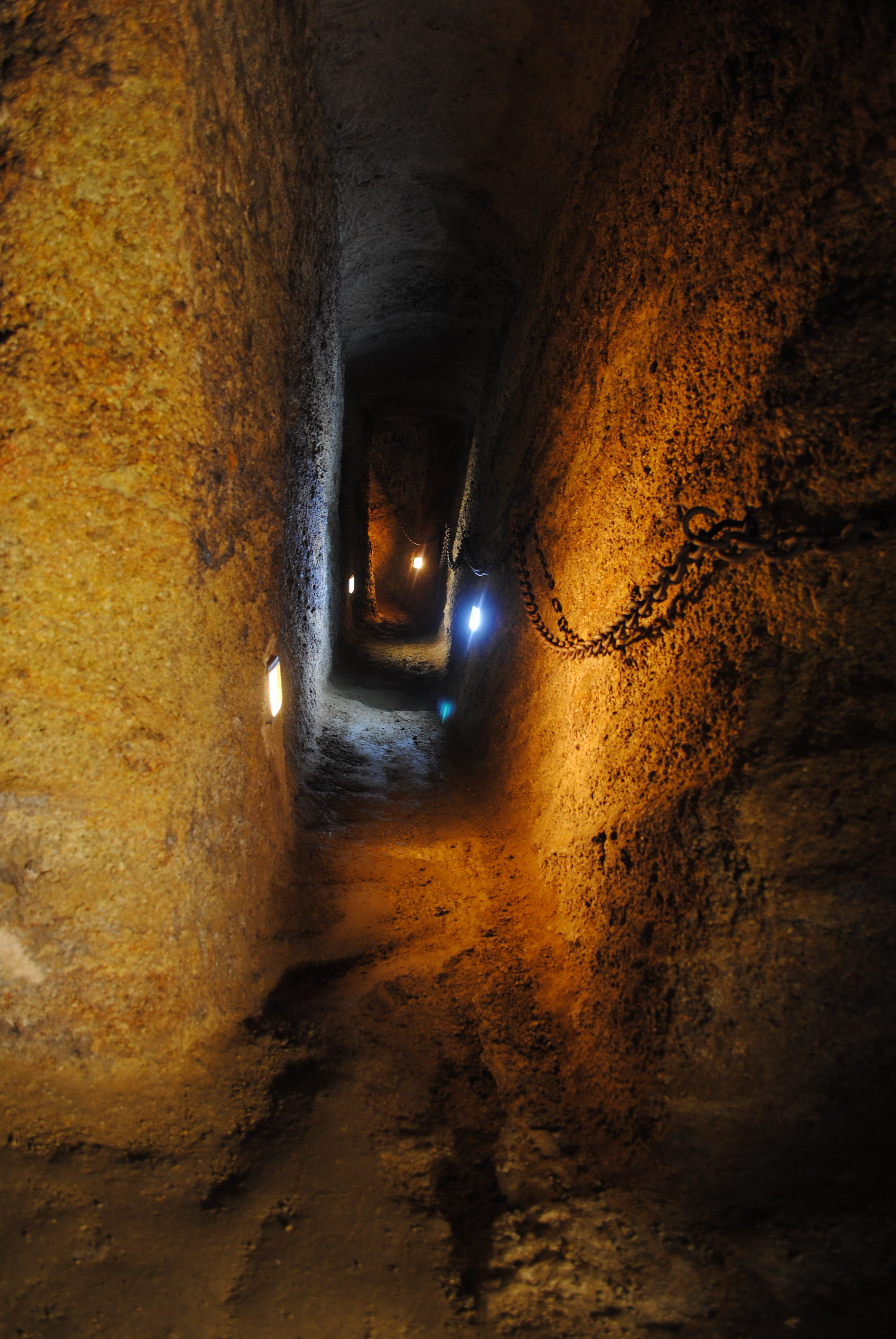 Relliguer Cave in Hostalric